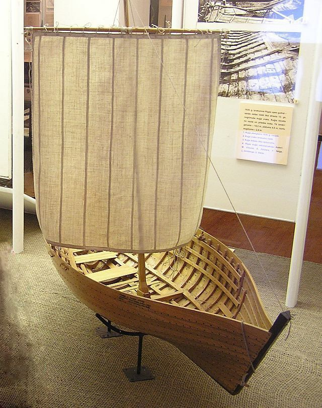 Model of Riga ship. Scale 1:15. Author E.Zvejnieks